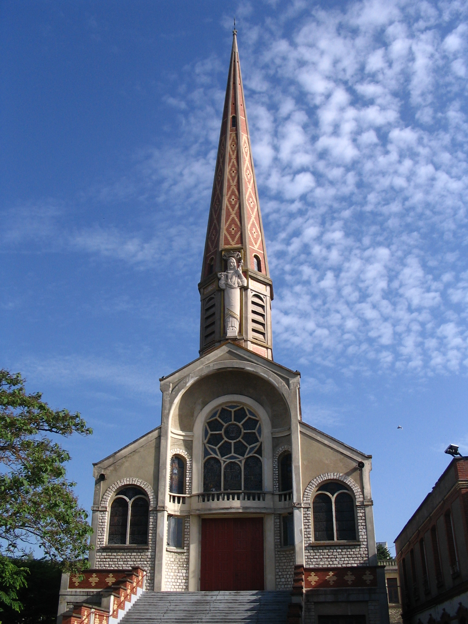 Modern (20th c.) church in Migennes, Yonne, France.